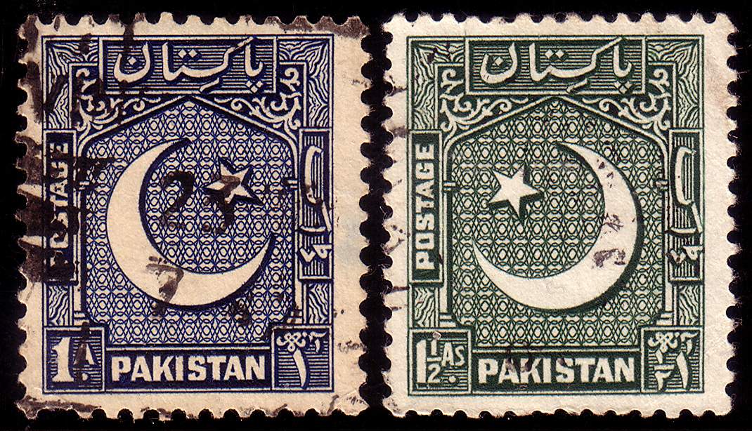 Standard postage stamps of Pakistan (1948, 1 anna and 1952, 1,5 annas), different directions of muslim emblem